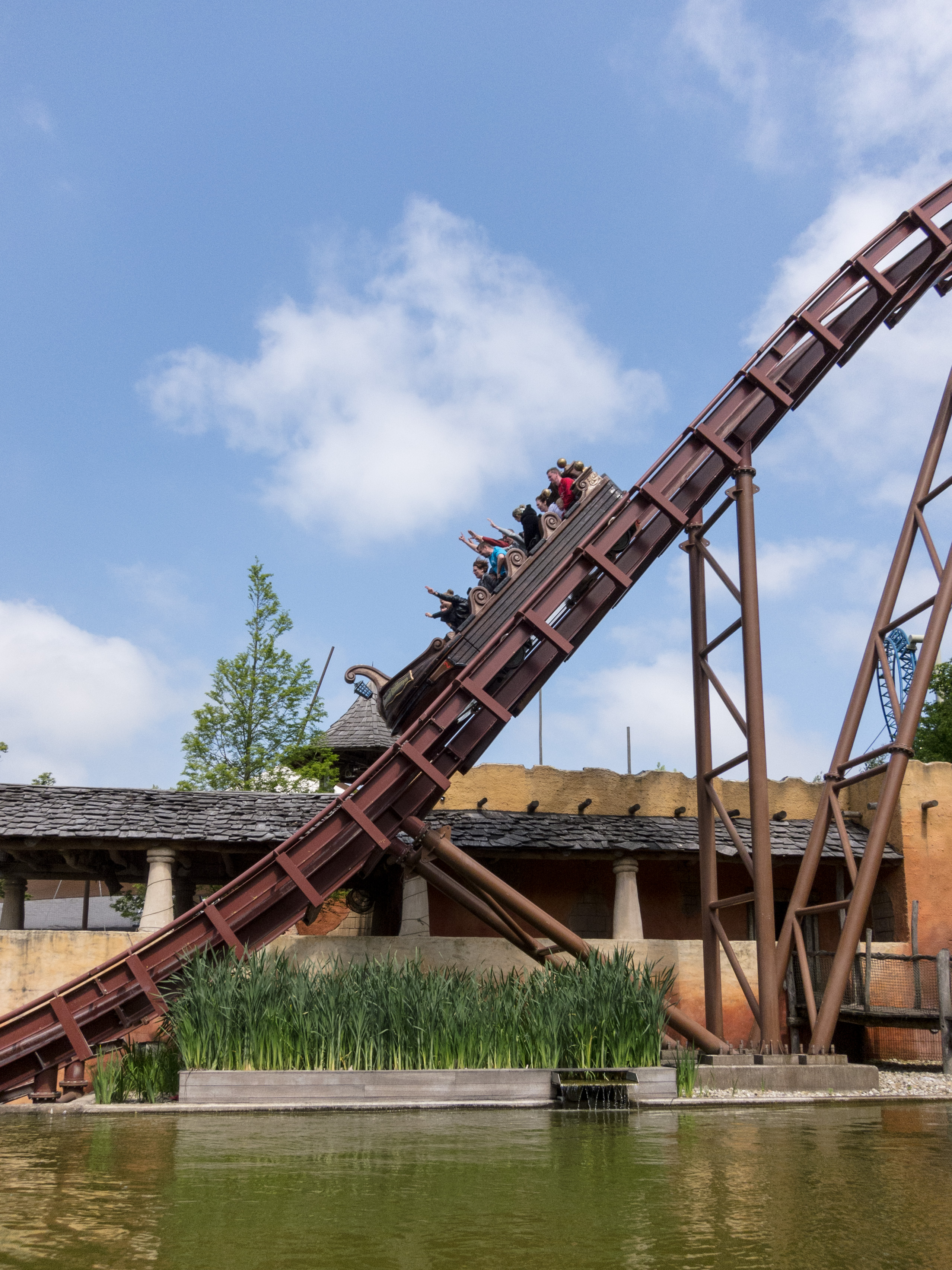 Mack Rides Supersplash SuperSplash at Plopsaland, De Panne, Belgium